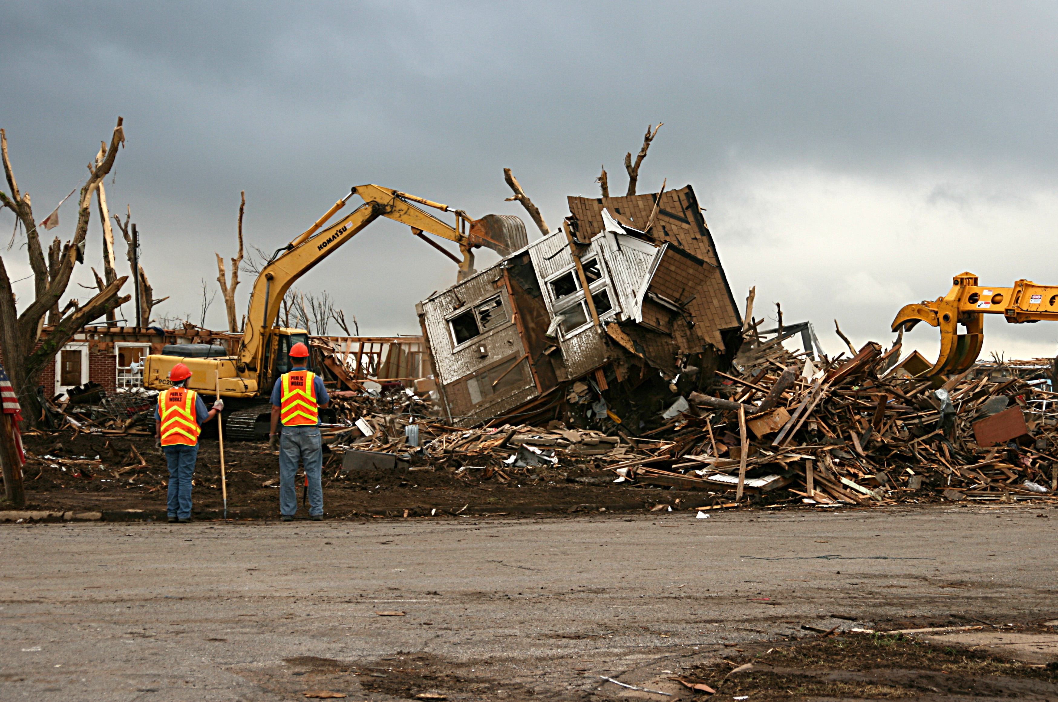 Greensburg, KS May 23, 2007 - Public Works employees take down what was left of a home, nineteen days after an F5 tornado destroyed most of the town. The debris will removed to the local dump by the end of the day. Photo by Greg Henshall / FEMA